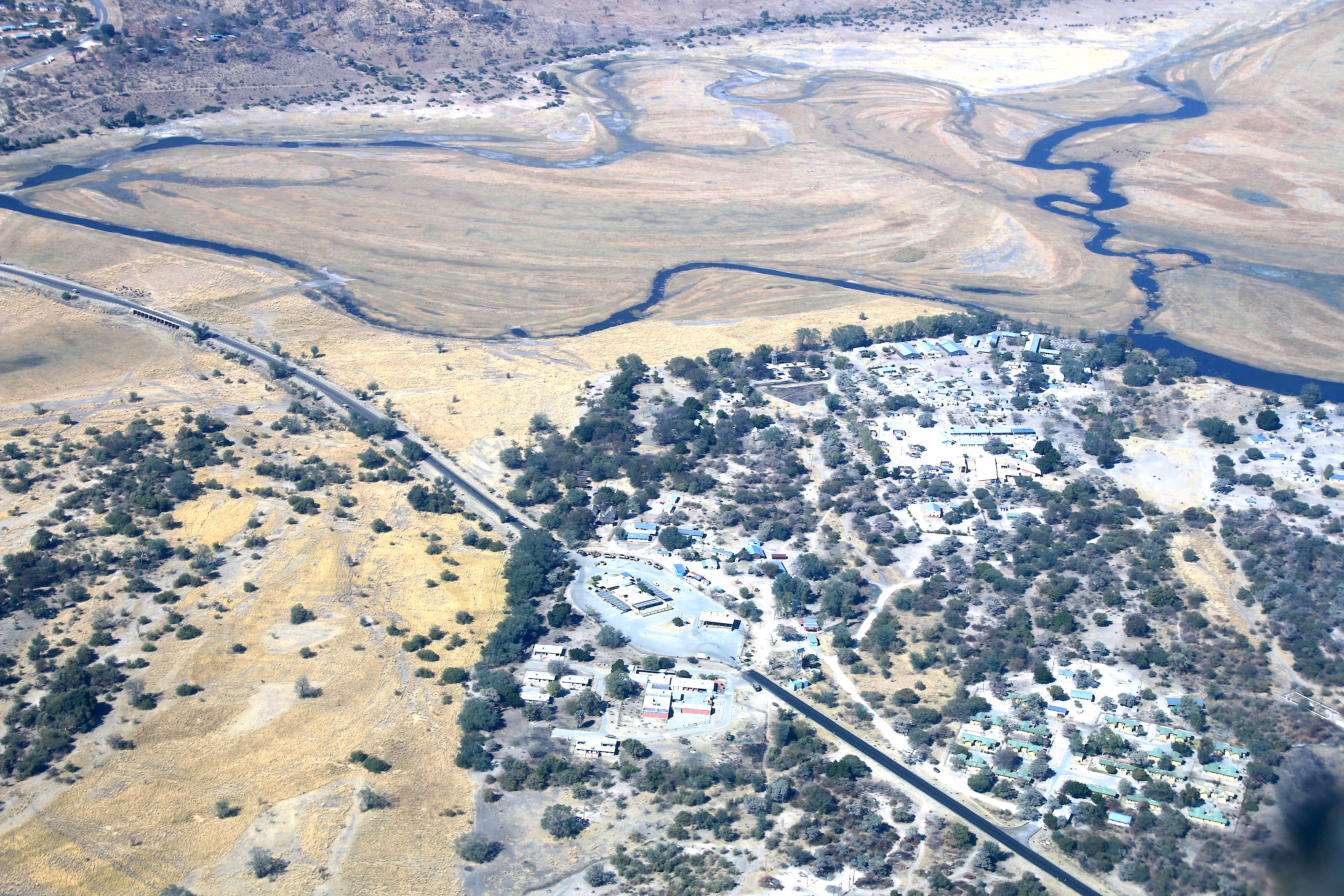 Ngoma (2019)